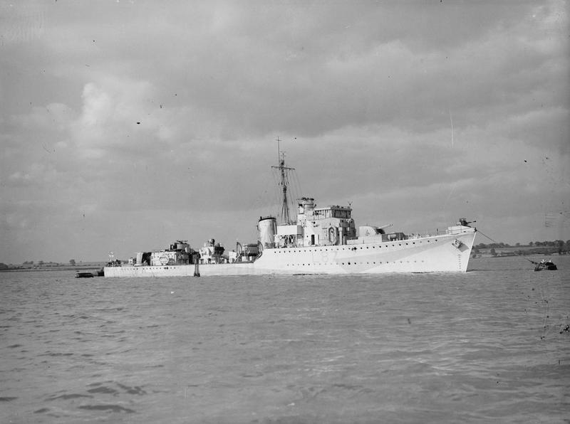 British Warships of the Second World War HMS EGLINTON, a Type 1 Hunt class destroyer.